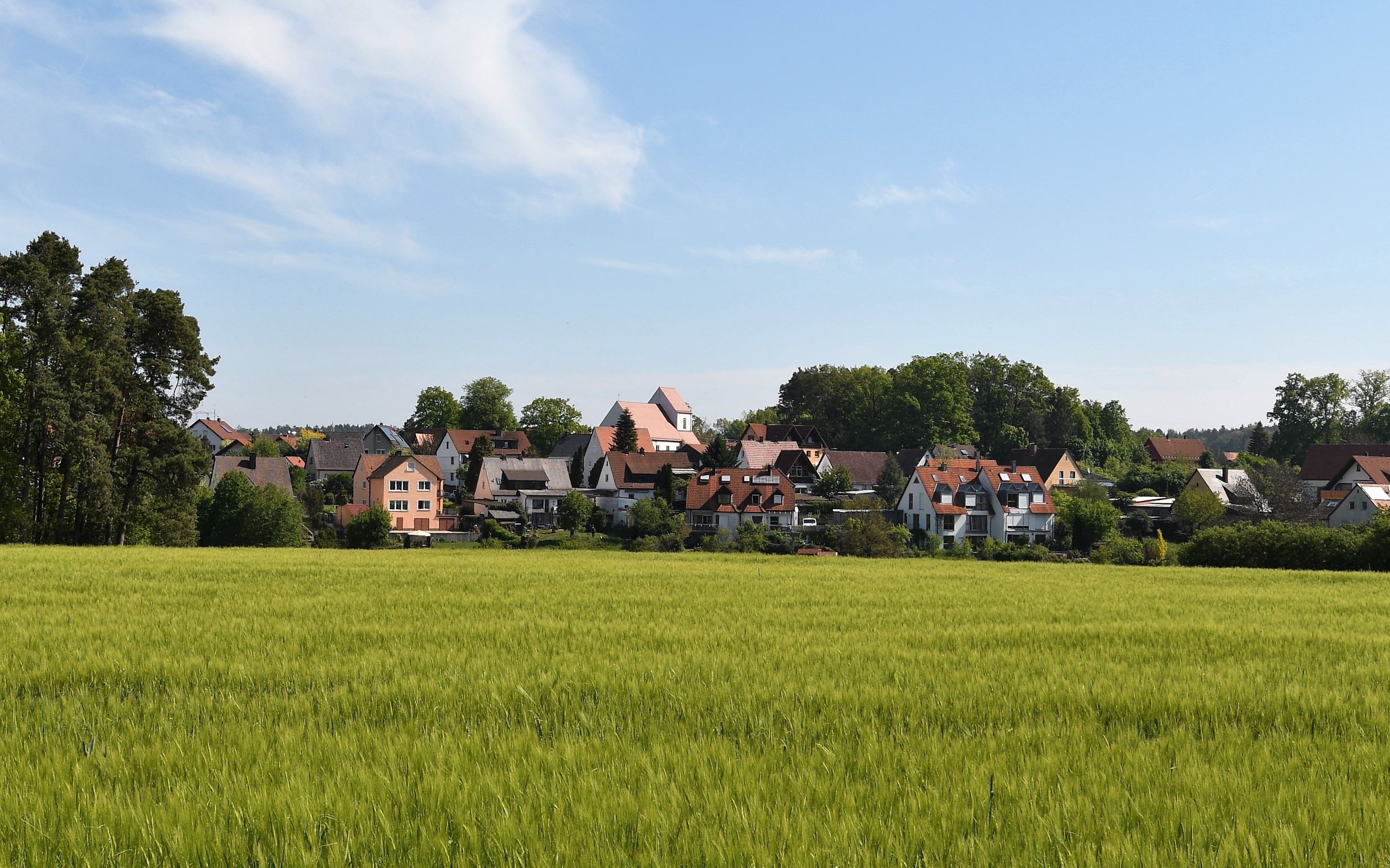 View over a barley field on Penzenhofen from southwest direction